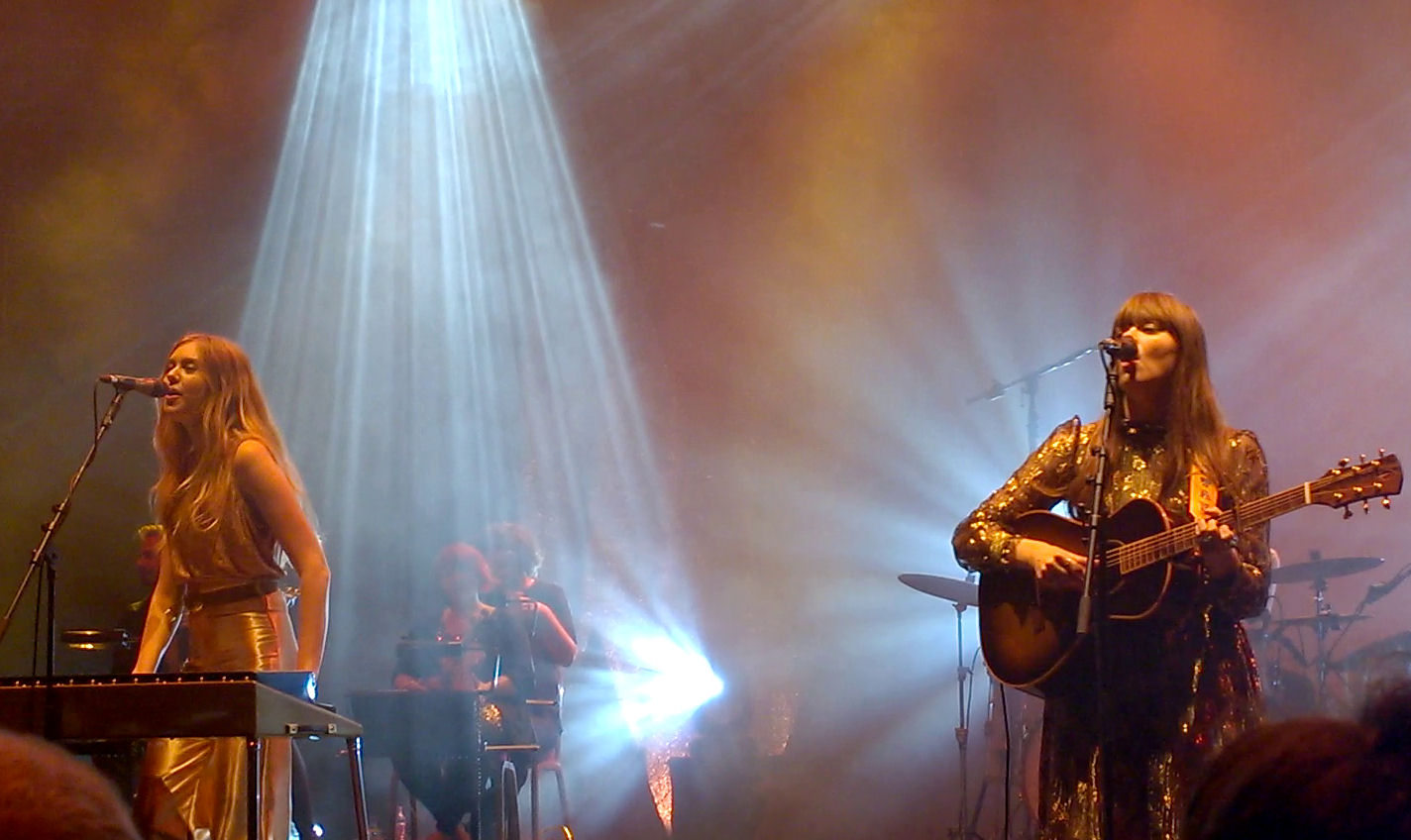 First Aid Kit (band) performing at Royal Albert Hall, London, UK September 24, 2014 with Stockholm Strings.